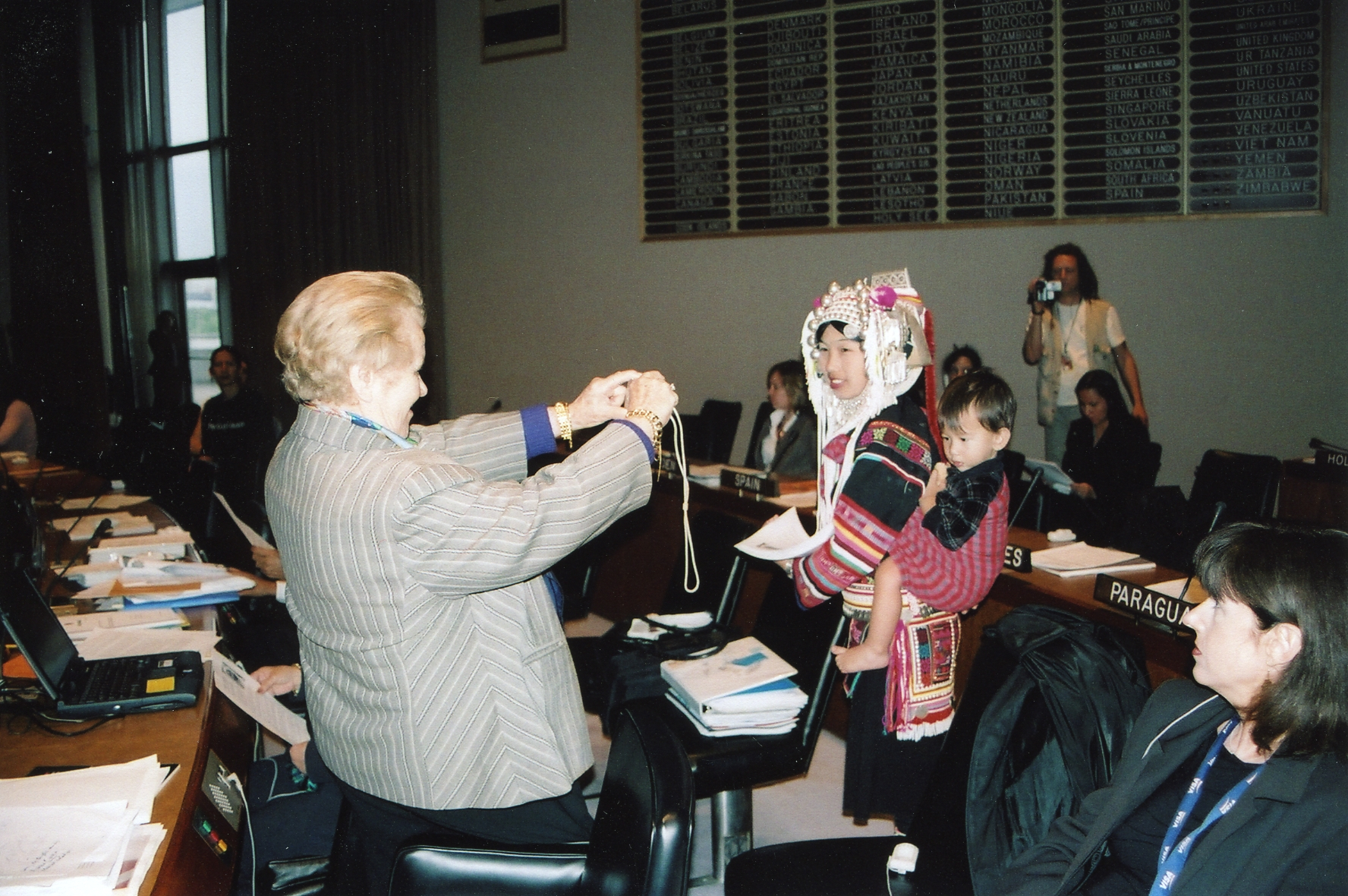 Erica-Irene Daes, Michu Uaiyue. At the United Nations.